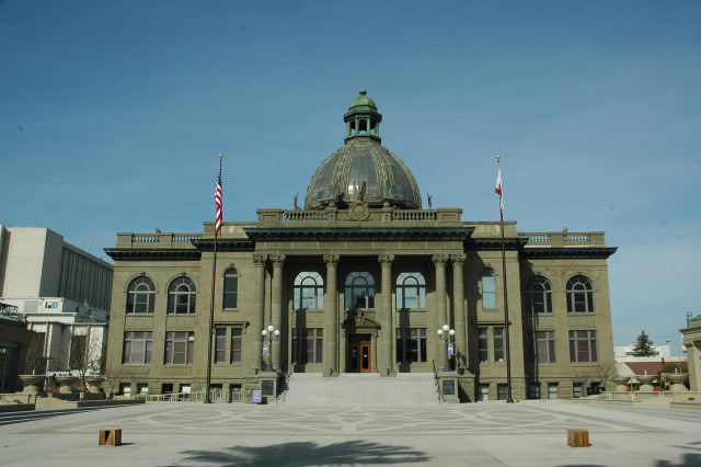 The historical Redwood City courthouse, built in 1910, and renovated in 2006.